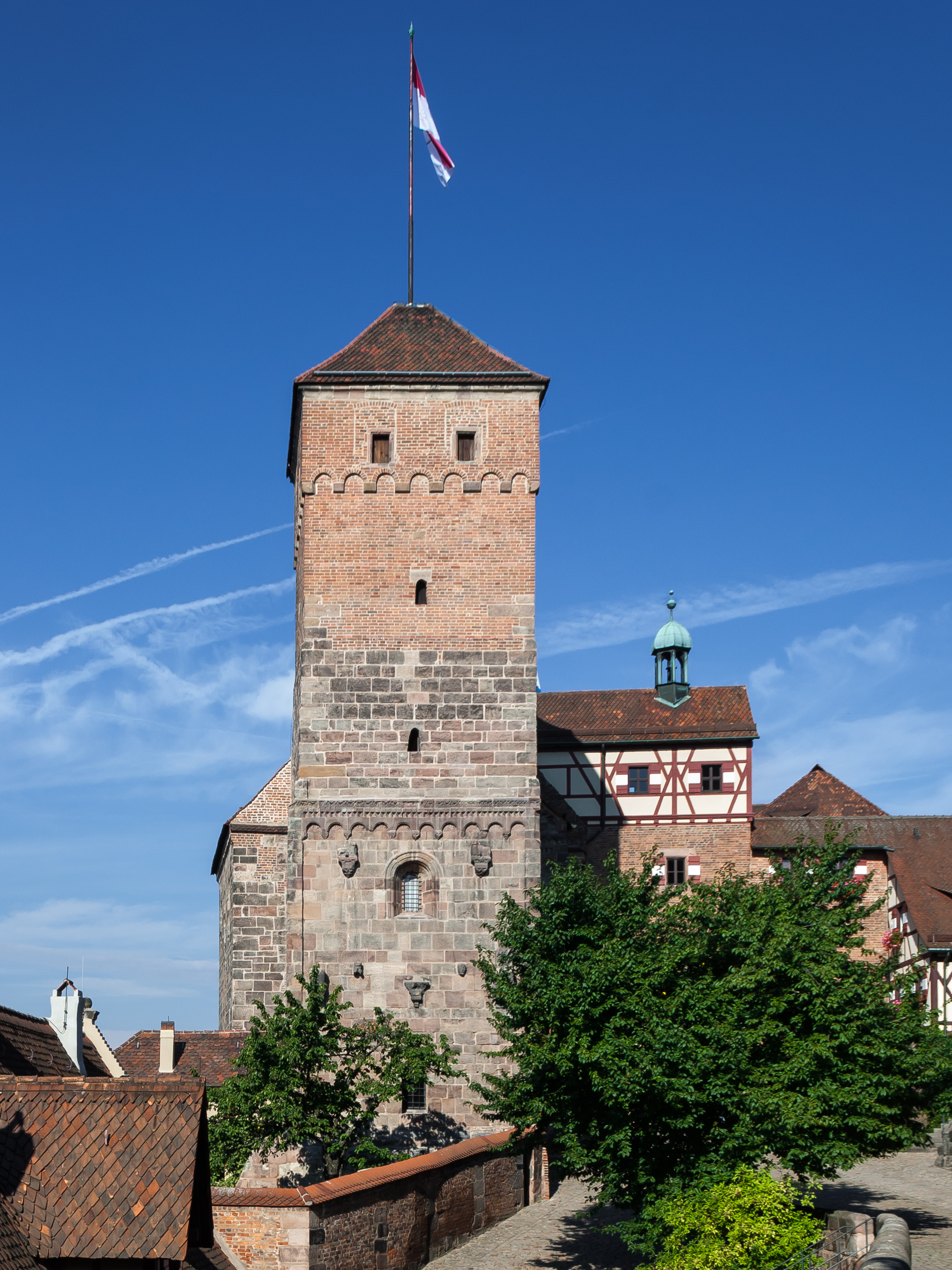 Heidenturm of Nuremberg Castle.